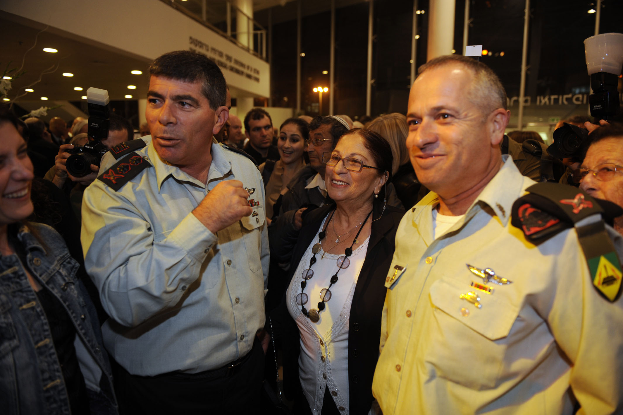 This evening, a farewell ceremony in Tel Aviv was held in honor of Lt. Gen. Gabi Ashkenazi who finishes his four year term as the 19th IDF Chief of Staff. The ceremony was attended by the families of fallen IDF soldiers and officers, as well as senior IDF and governmental officials including President Shimon Peres, and friends and family of Lt. Gen. Ashkenazi. Pictured above: Lt. Gen. Ashkenazi and his mother, Frieda and his brother, Brig. Gen. Avi Ashkenazi.